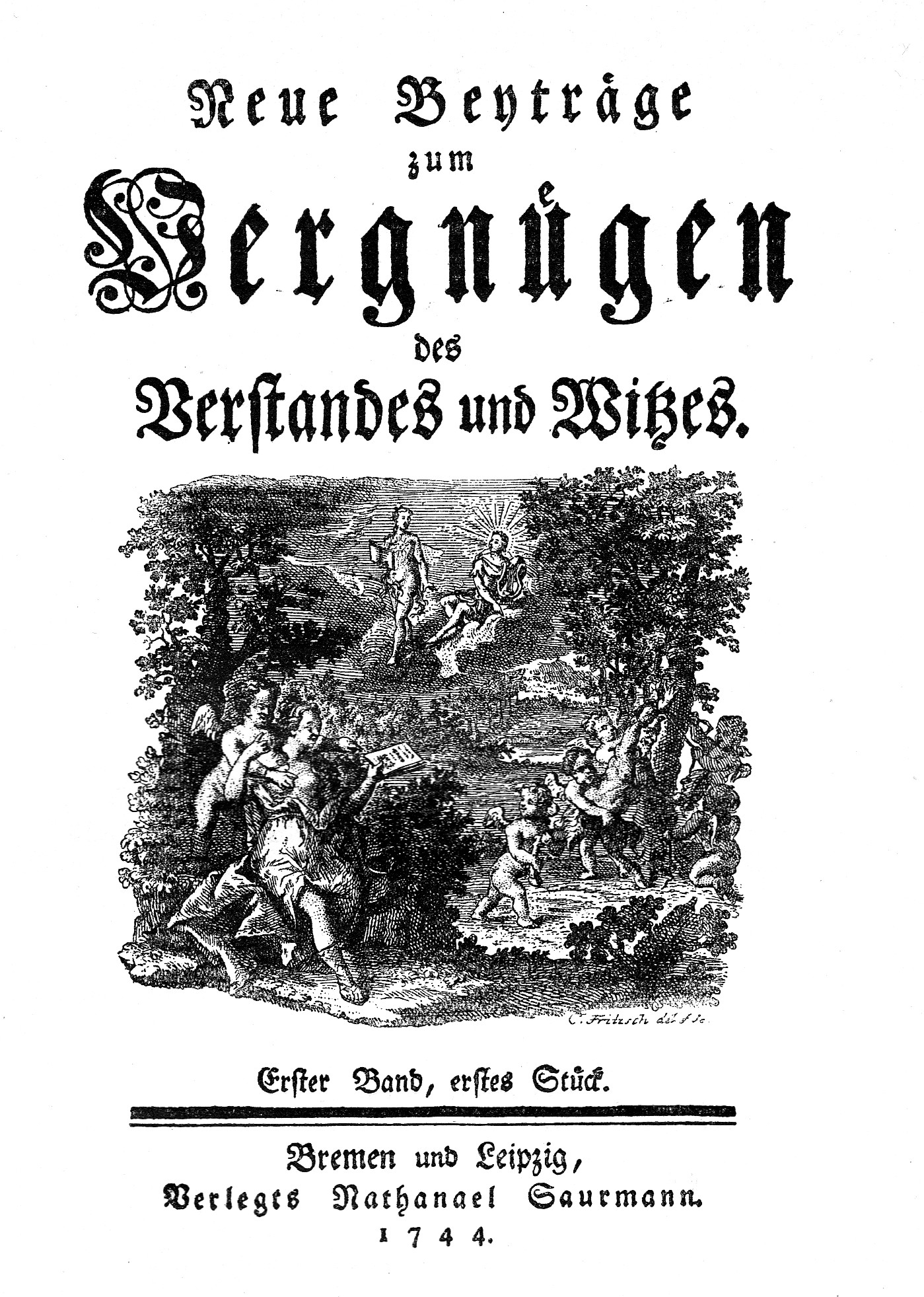 Front of first issue; uploaded from